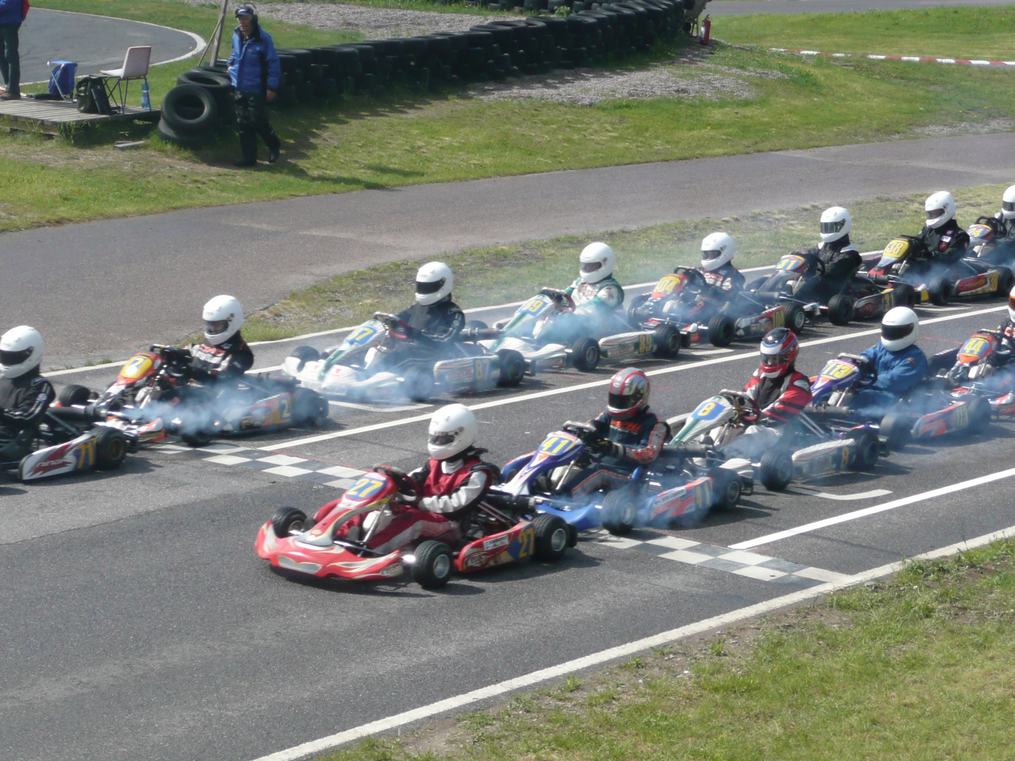 Karting start Vihti Yamaha Cup Finland 2010